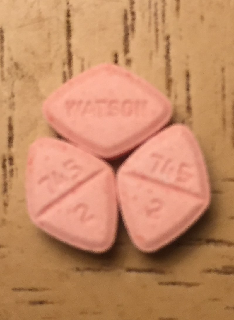 2mg Tablets Watson 745